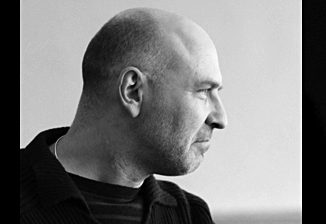 Rolandas Augustinas Atkočiūnas